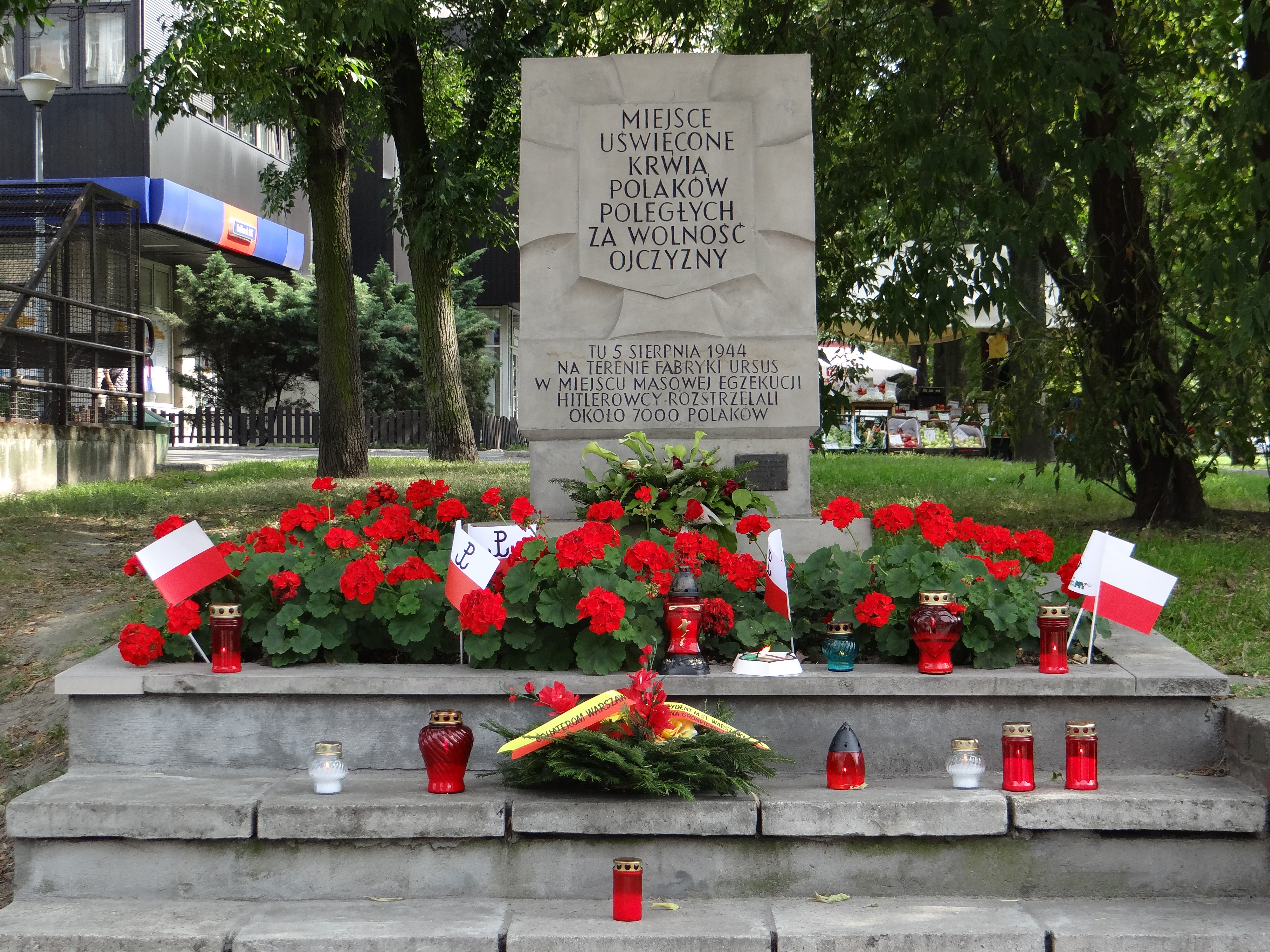 Plaque at 55 Wolska Street in Warsaw (in place of former “Ursus” factory), commemorating almost 7000 Polish civilians murdered in this place during so-called Wola massacre (5th August 1944 - first days of Warsaw Uprising).